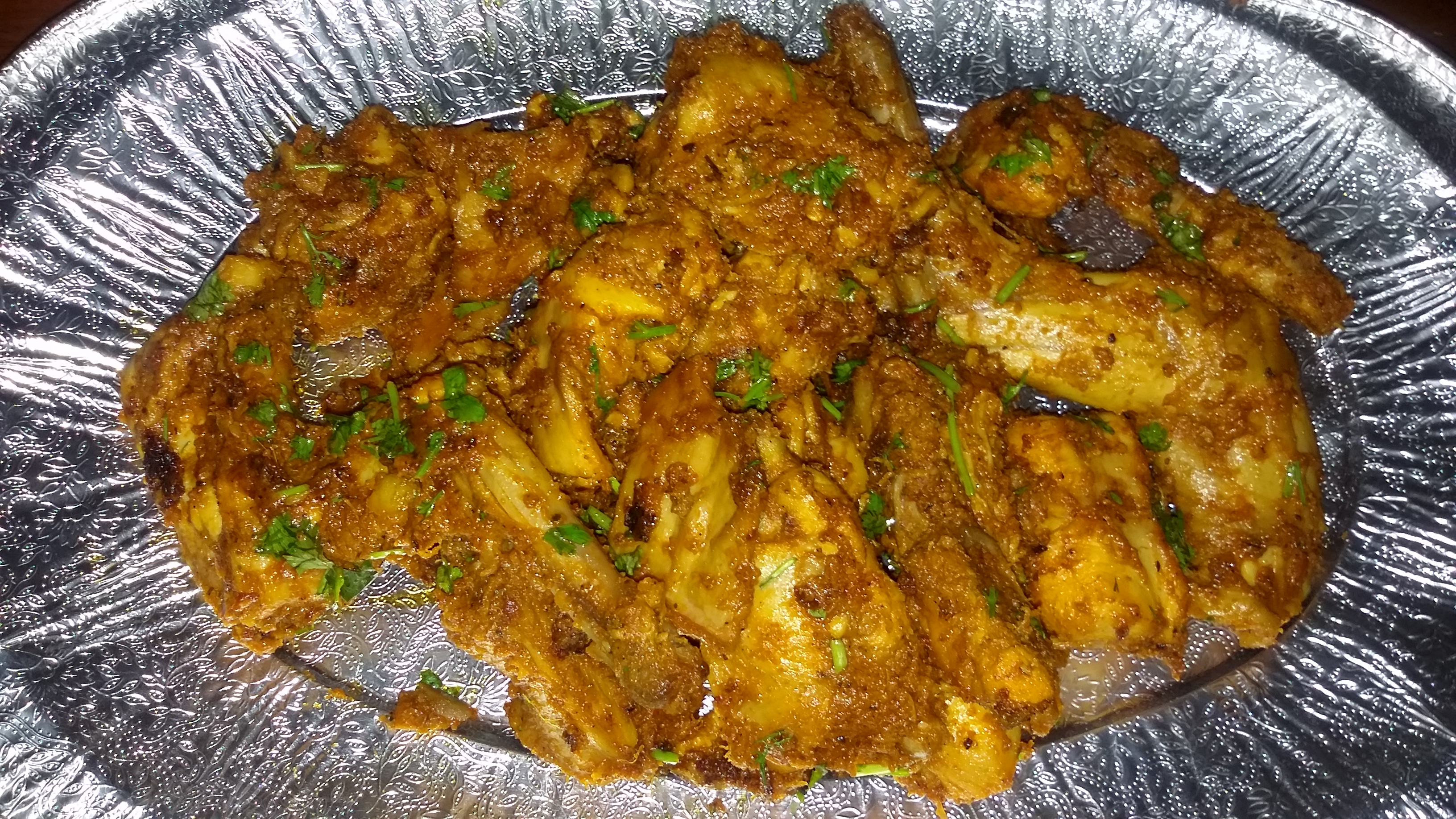 rabbit fry made with marinated Indian spices, more juicy & tasty to have with rice or chappati, idly, dosa.